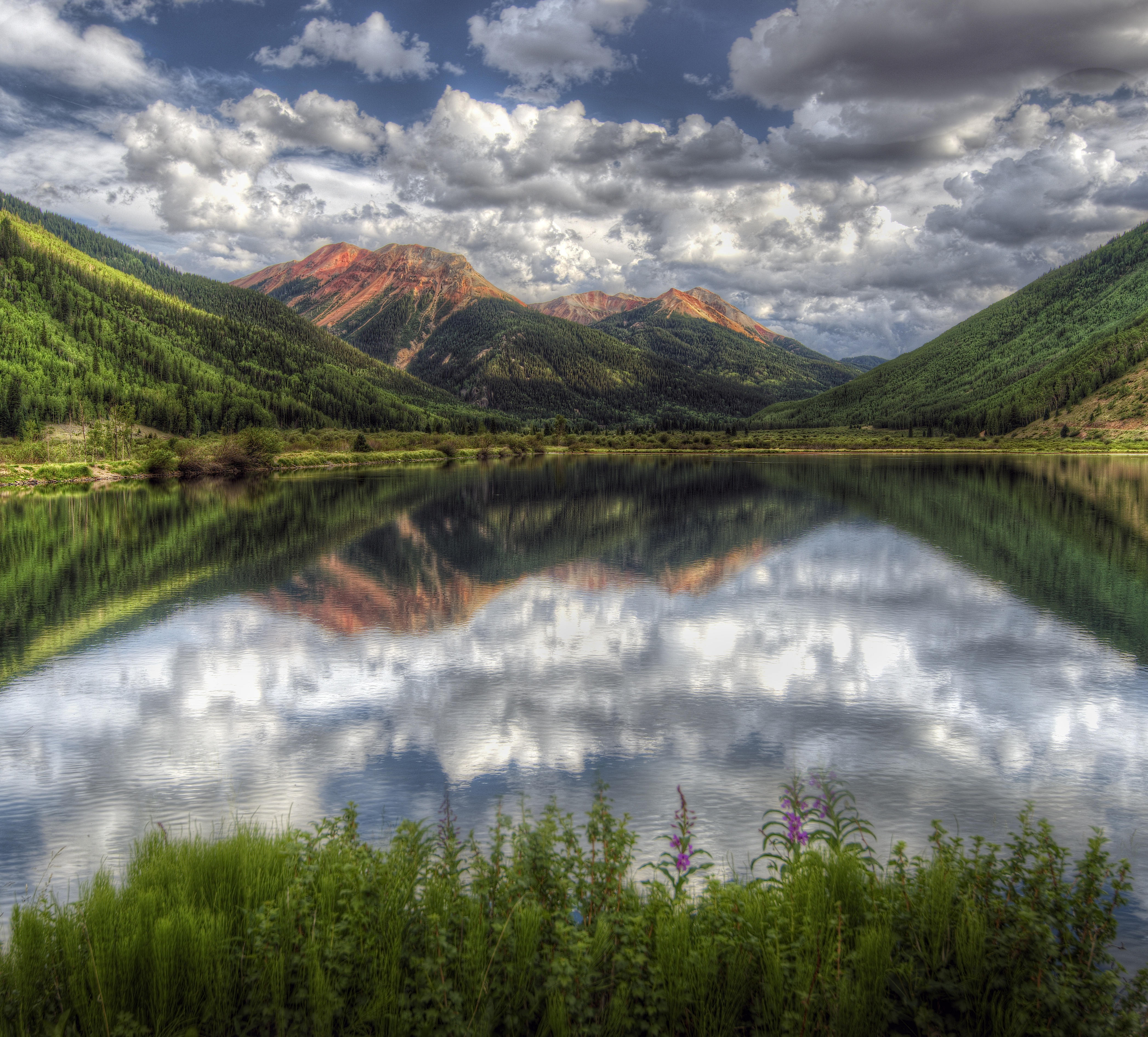 This is the afternoon version of the shot I put up a week ago, of Red Mountain reflected in Crystal Lake. The scene is about 10 miles south of Ouray, Colorado, along US 550.